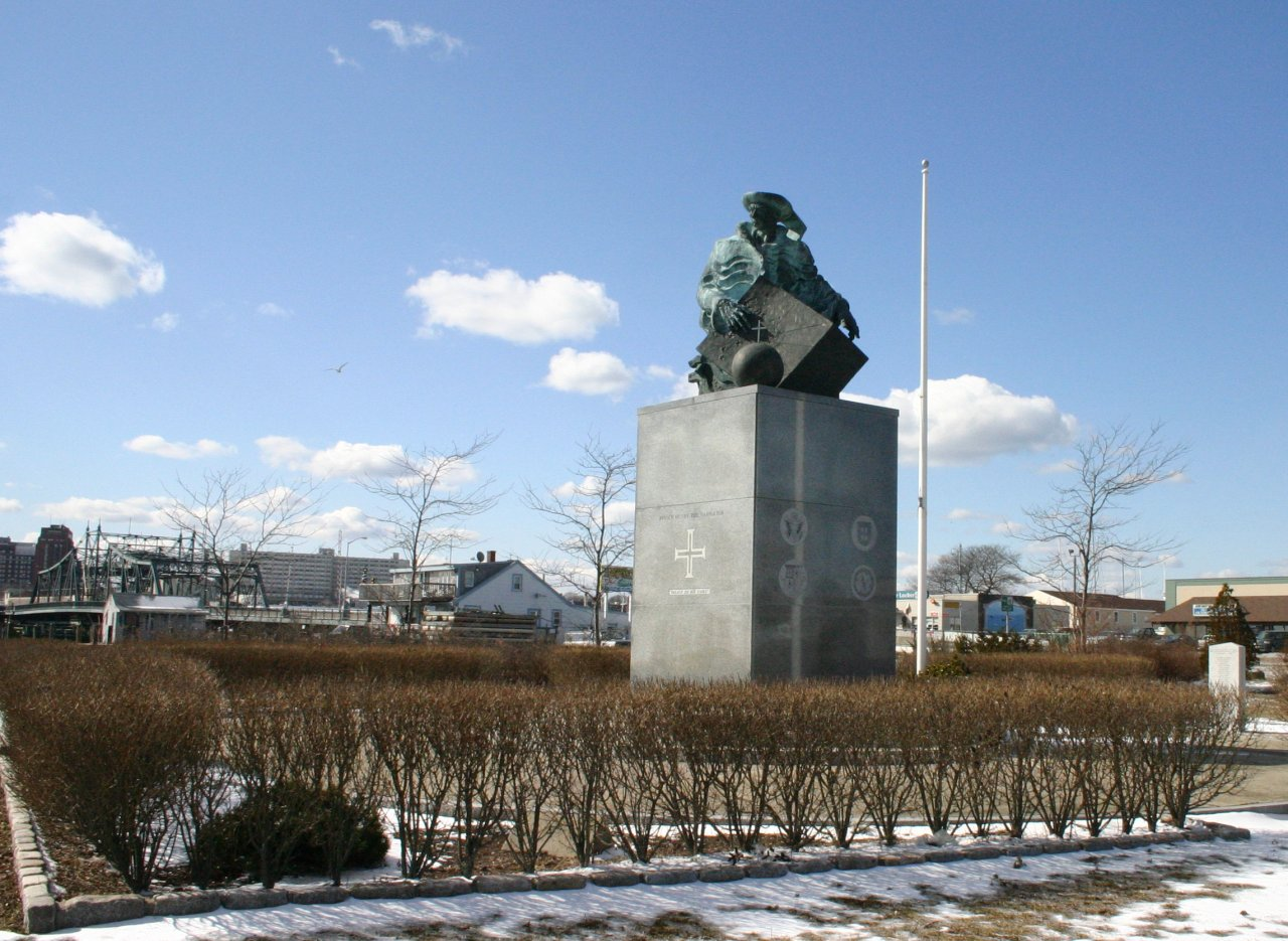 Prince Henry the Navigator Park in New Bedford, Massachusetts. Source: Photo by Aaron Sherman, (c) 2006